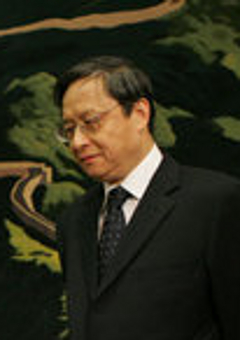 President George W. Bush signs his condolences for the victims of China's May 12 earthquake as he and Mrs. Laura Bush visit the Embassy of the People's Republic of China Tuesday, May 20, 2008, in Washington, D.C. With them are China's Ambassador to the United States Wenzhong Zhou and his spouse, Shumin Xie.